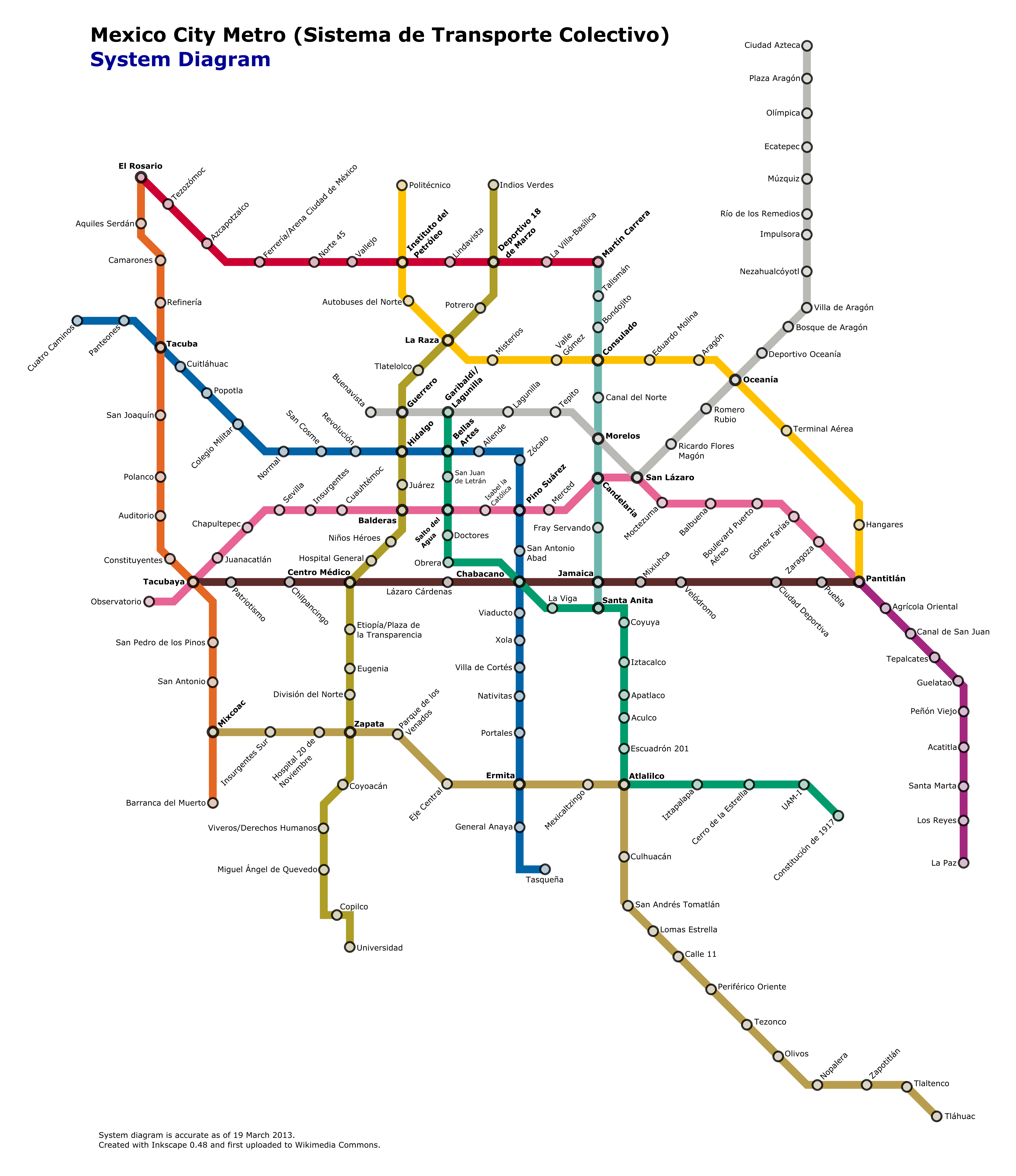 Mexico City Metro (Sistema de Transporte Colectivo) System Diagram. Based on actual system routes according to STC. Locations are approximate. All twelve lines of the system have been included, and station names are accurate as of 1 March 2013. Two planned stations are included after their confirmation by mayor Miguel Ángel Mancera on 15 February 2013. English captions version. Station names and any logos are property of Sistema de Transporte Colectivo. No copyright infringement intended.